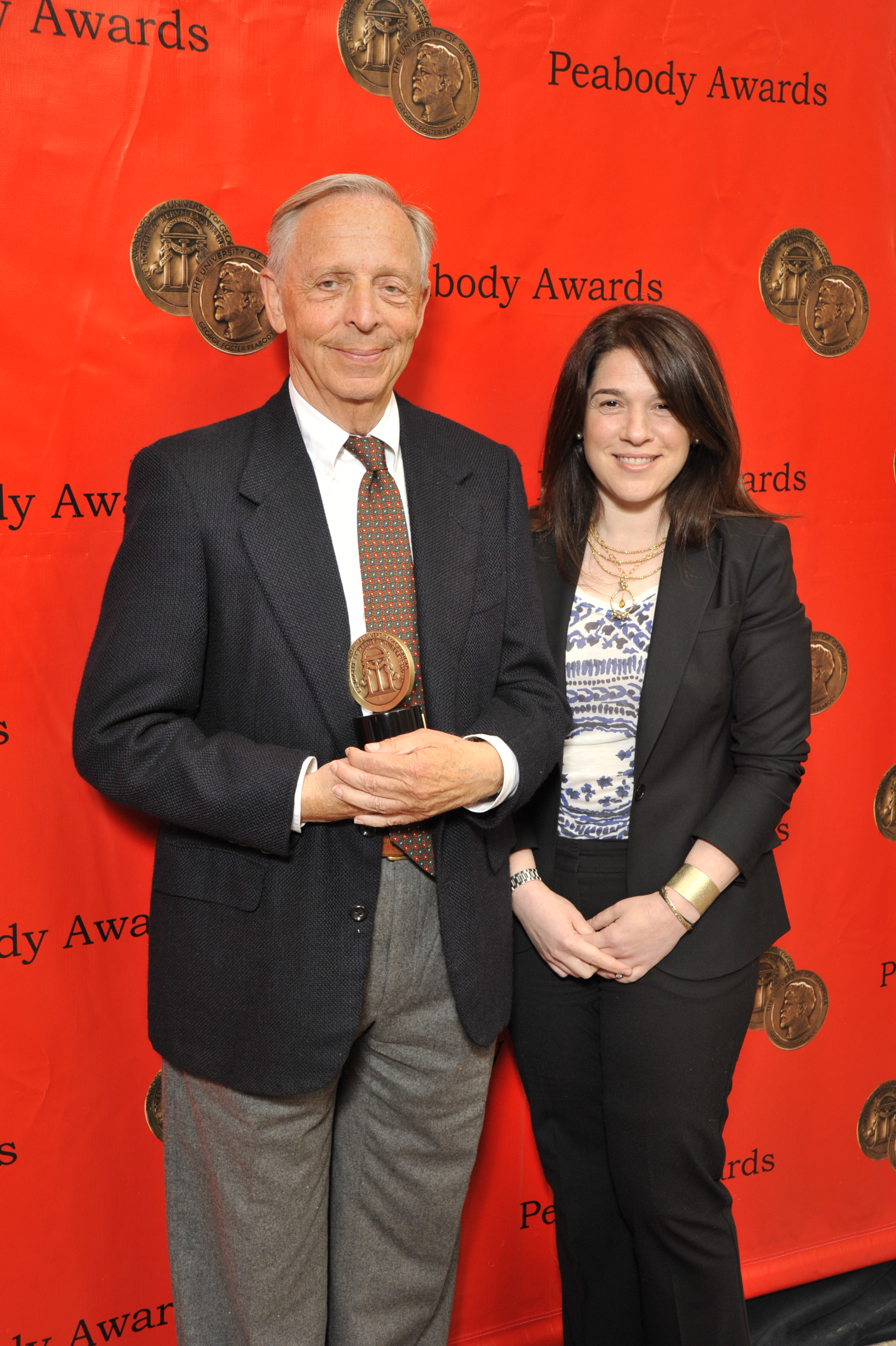 Peter Lassally and Lisa Ammerman 69th Annual Peabody Awards Luncheon Waldorf=Astoria Hotel New York, NY USA May 17, 2010